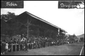 Dorogi AC. stadium with the filled covered grandstand in 1927.